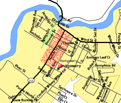 Derivative work of map created on U.S. Census Bureau Tiger website[1]. Overlays added by Daniel Case